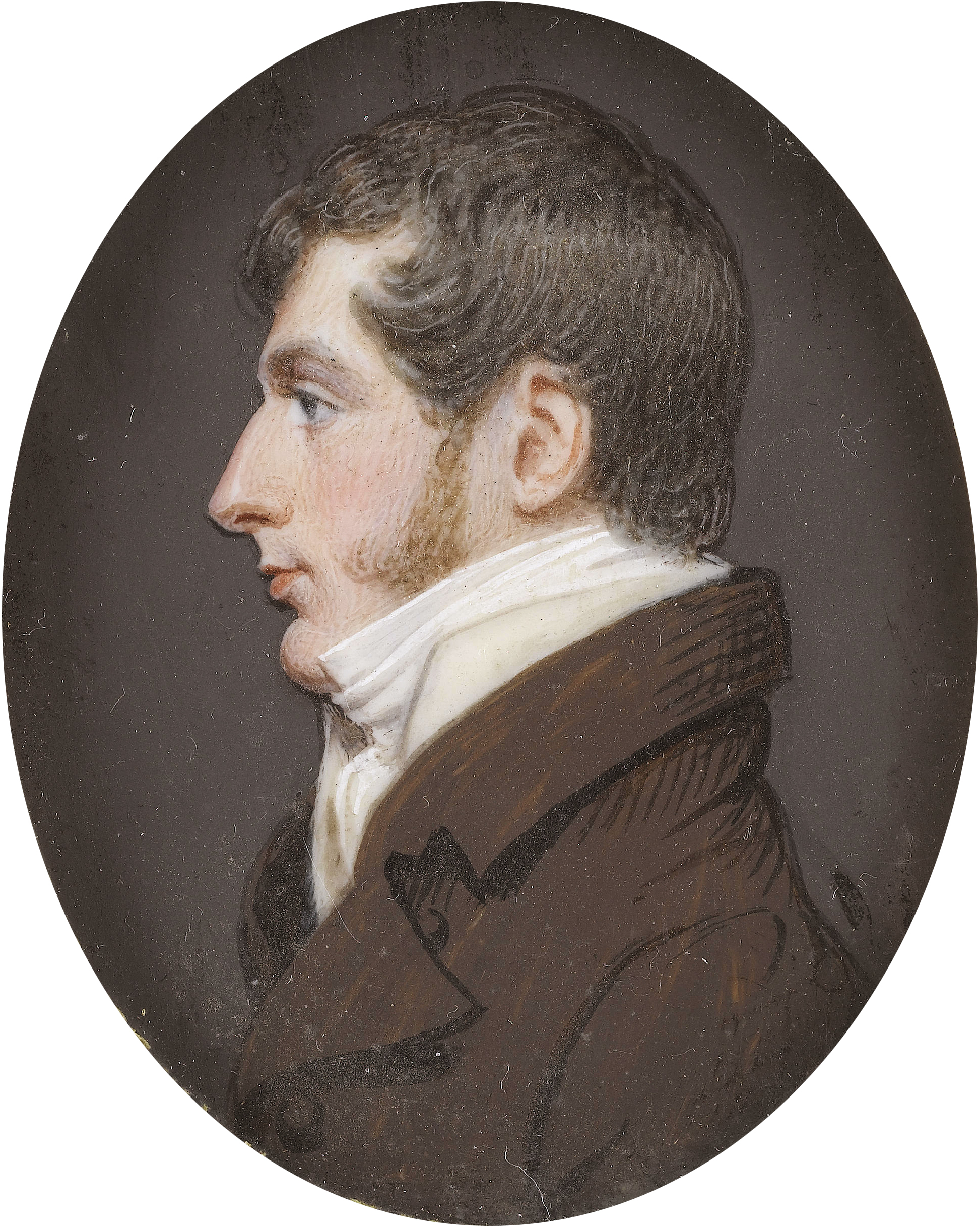 George Granville Sutherland-Leveson-Gower, 2nd Duke of Sutherland KG (1786-1861) ovel 6.1 cm high reverse engraved Earl Gower, / afterwards Duke of Sutherland. / Born 1786 Died 1861.